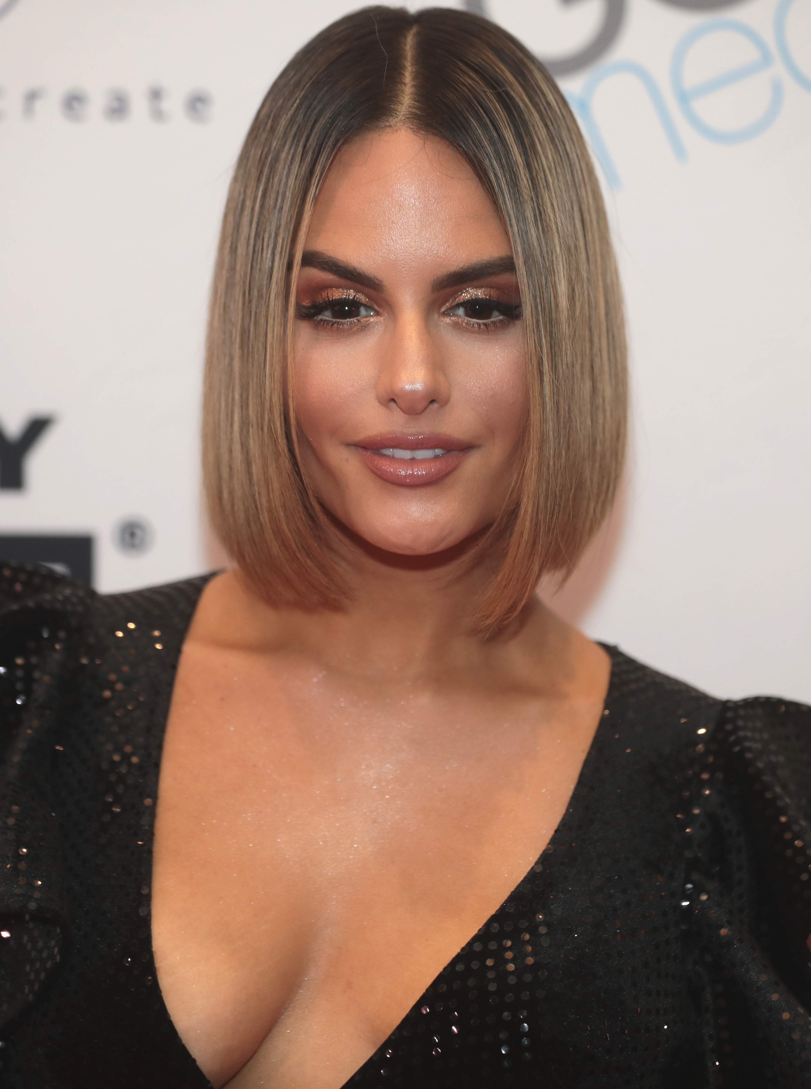 Pia Toscano at Celebrity Fight Night XXV in Phoenix, Arizona.